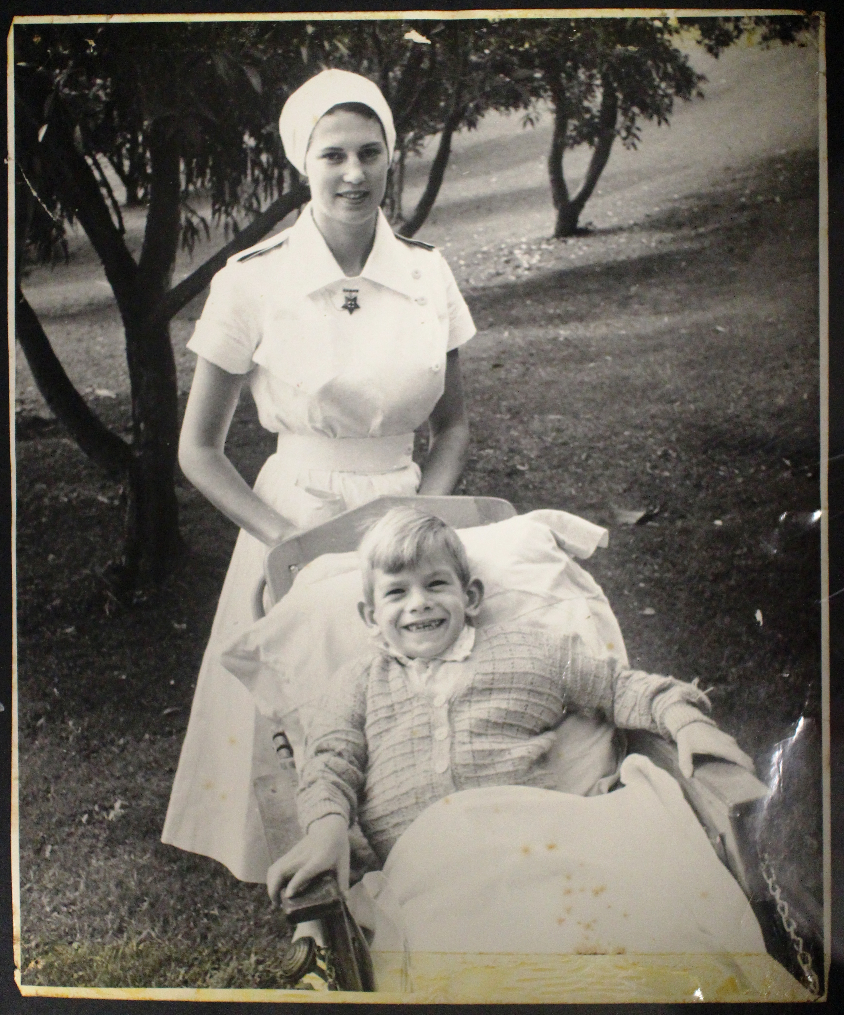 On 29 August 1937 the Wilson Home was opened on Auckland’s North Shore. Mr and Mrs WR Wilson gifted their home and gardens in Takapuna for the benefit of children with disabilities. They had been inspired by ideas about new treatments for children with polio and other crippling conditions. The home provided the children with care, and access to fresh air and sunshine, which were believed to be particularly beneficial. The Wilson Home Trust is a registered charity and Waitemata District Health Board holds title to the site as trustee. Although attitudes to residential care have changed, the Trust still provides rehabilitative therapy, respite care and clinics. A programme of vaccination against polio was introduced in the 1950’s and since 1962 the only cases in New Zealand have been imported. The image shown here is from the Auckland School of Nursing’s photographs, held in Auckland Regional Office - BAOE A717/48e For more information For updates on our On This Day series and news from Archives New Zealand, follow us on Twitter Material from Archives New Zealand